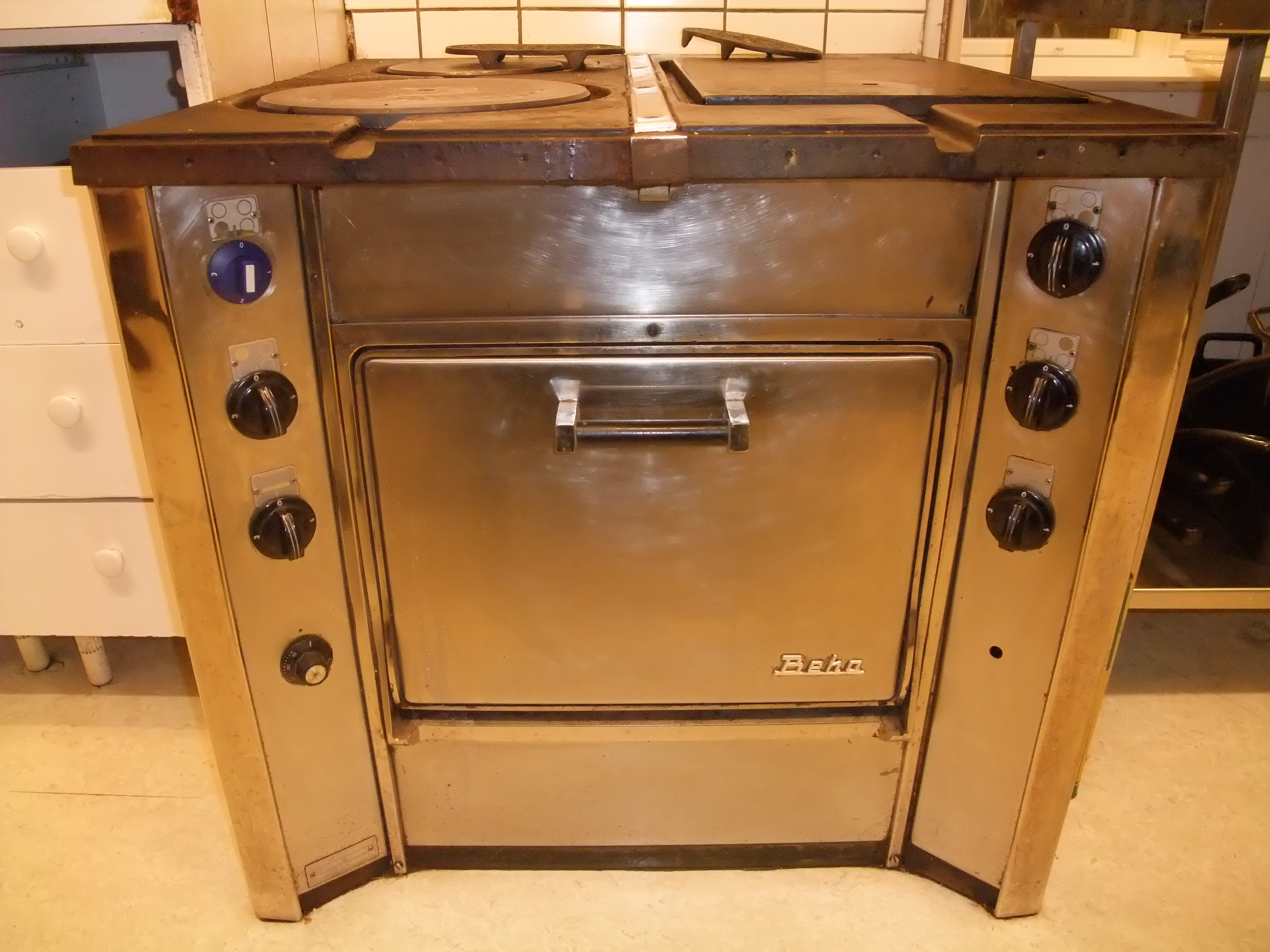 Beha-Hedo oven for industrial use.